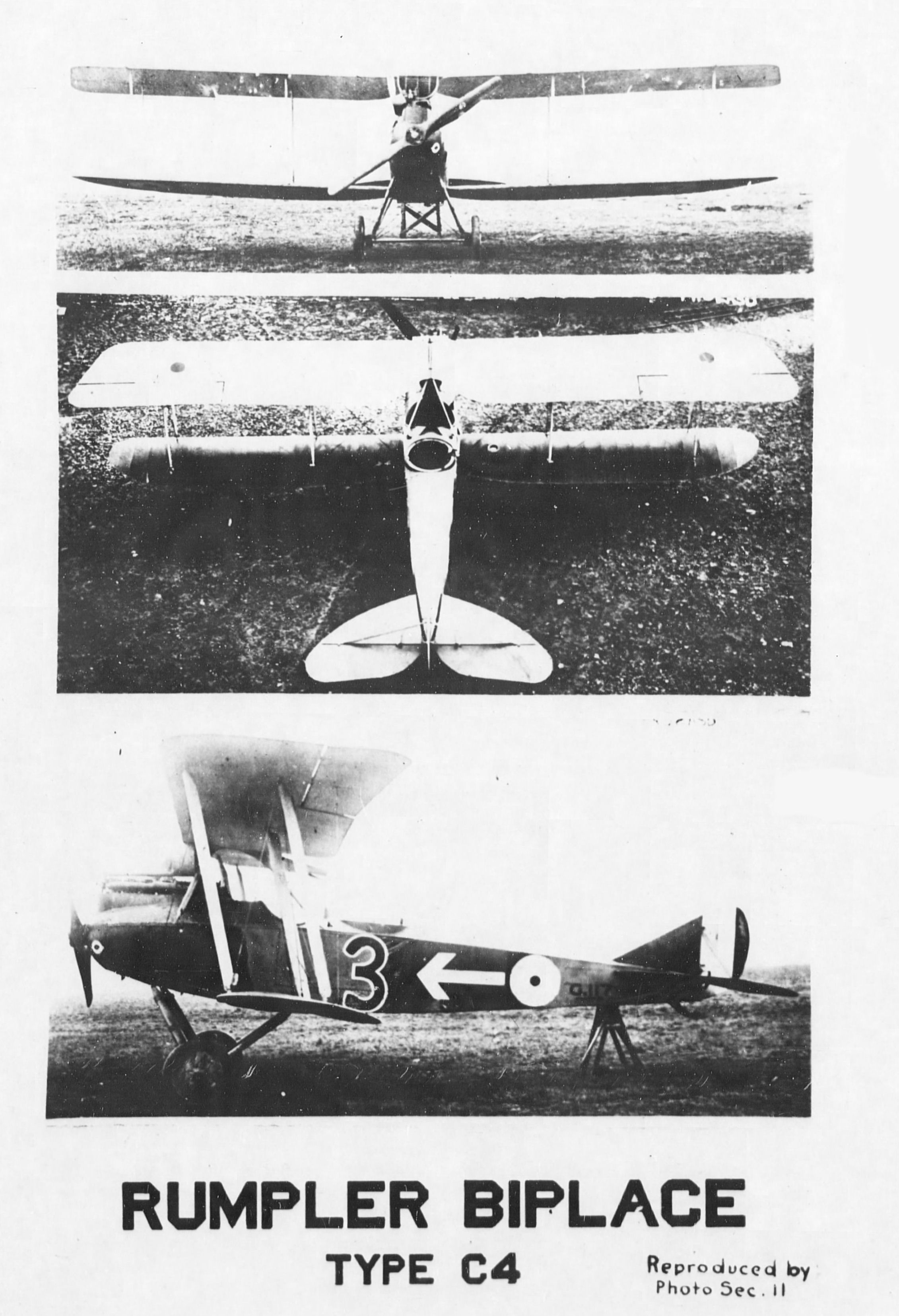 Captured Third Army German Rumpler C.IV, taken at Coblenz Aerodrome, Germany